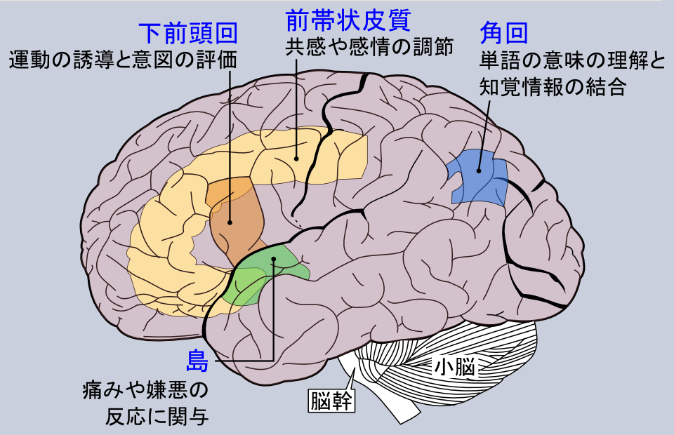 Cause of autism in different brain regions (Japanese)